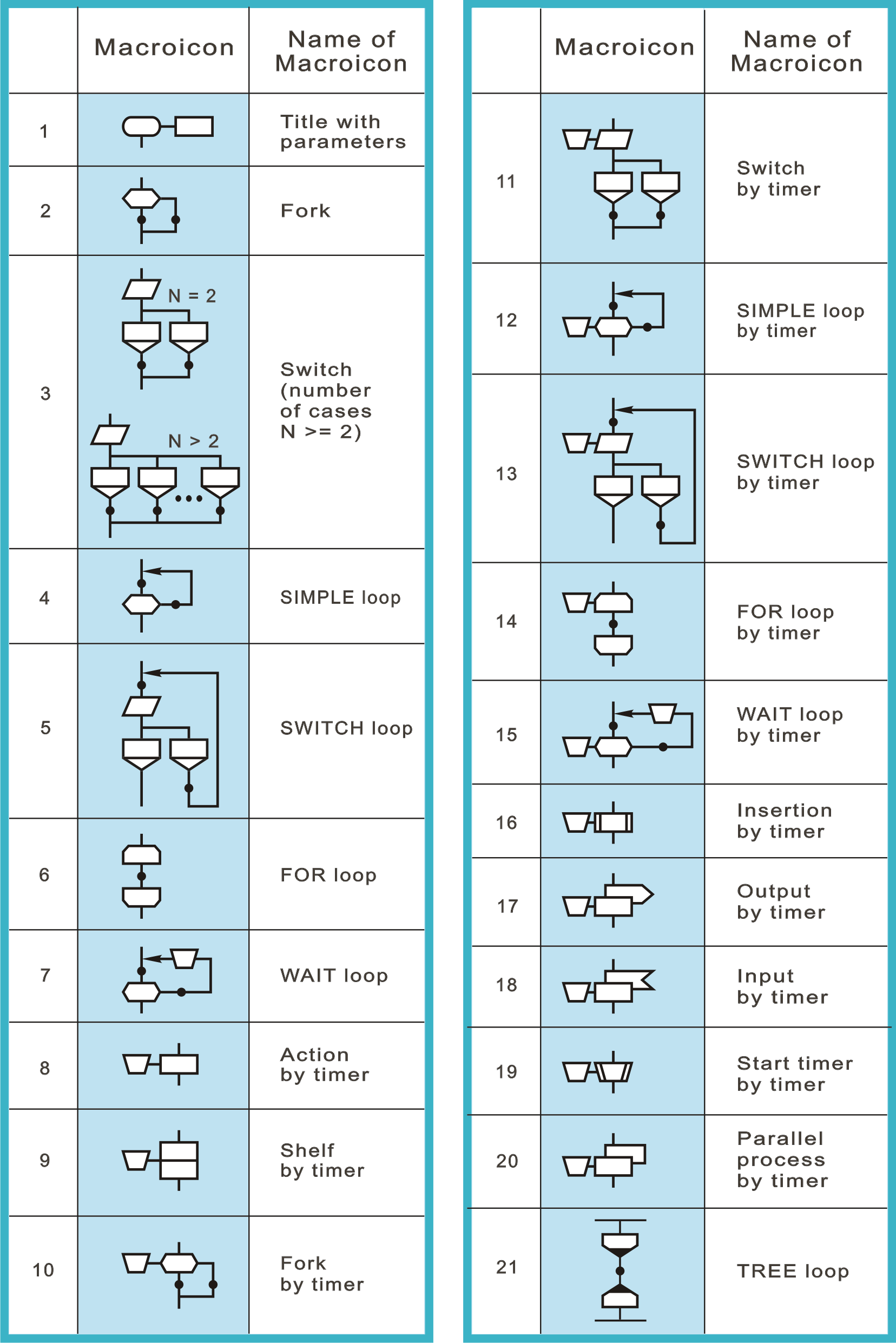 The macroicons of the visual programming language DRAKON. Macroicons are the graphical words. They consist of graphical letters — icons. The graphical words of the DRAKON language are called macroicons. Just as words are made up of letters, macroiсons (graphical words) consist of the icons (graphical letters).